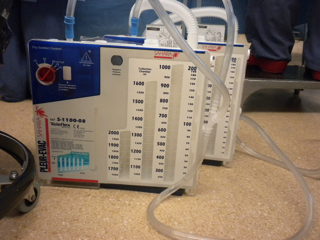 This is an image of two drainage canisters for use in Chest Tube